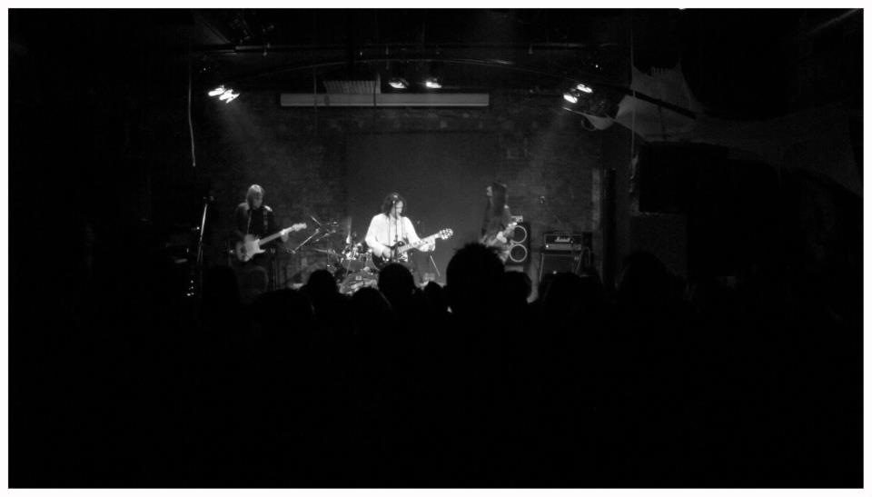 Phase on Stage